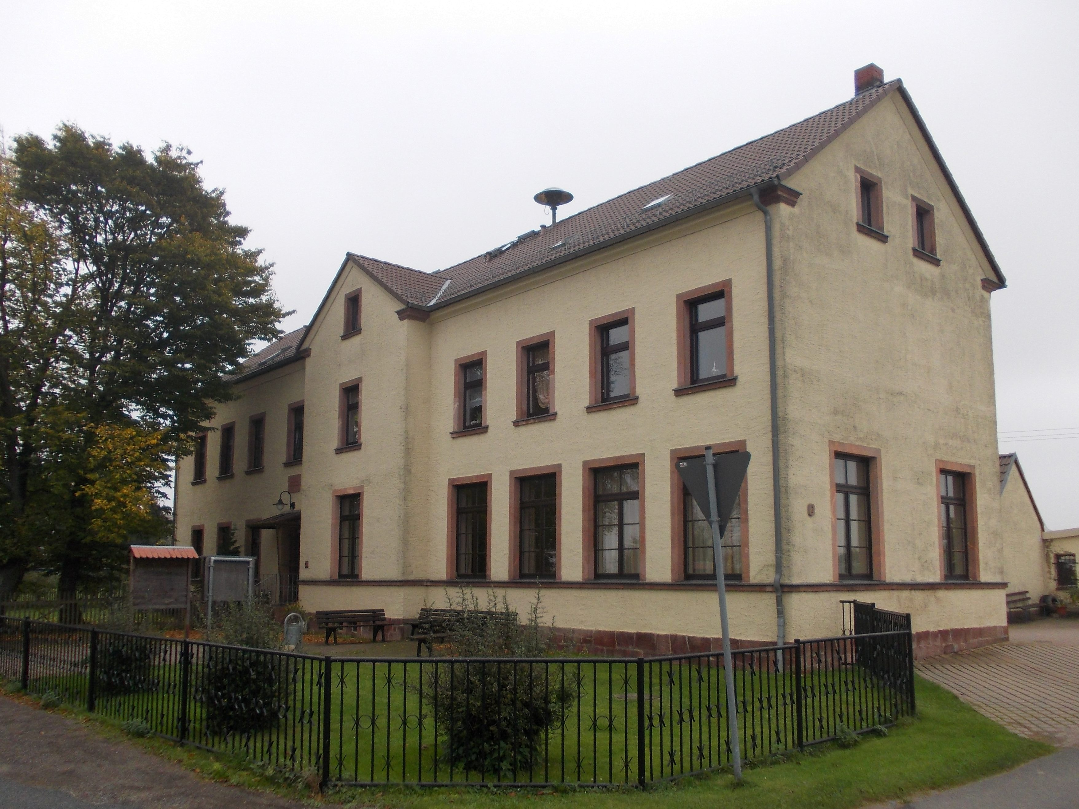 Former school in Breitenborn (Rochlitz, Mittelsachsen district, Saxony)